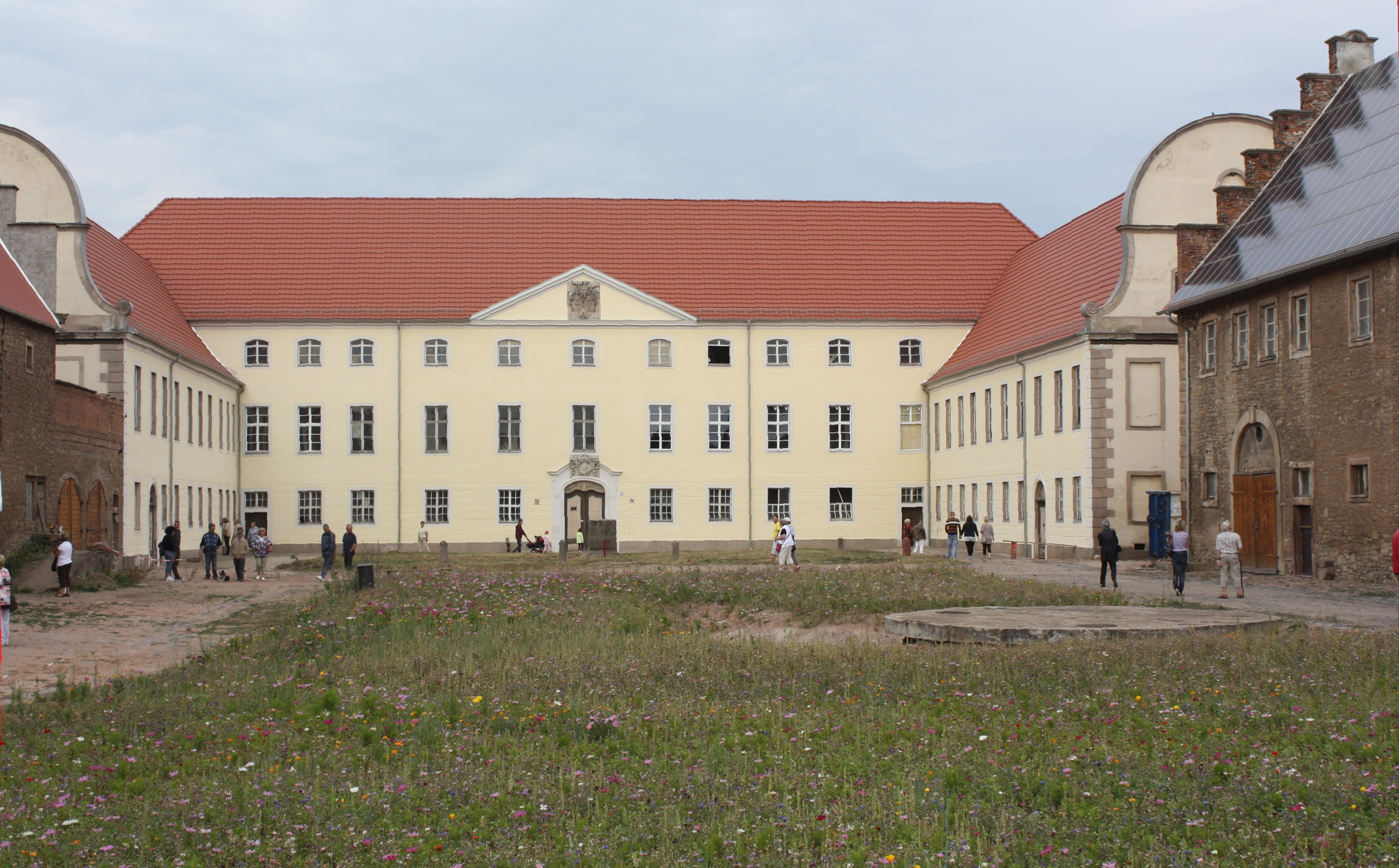 Walbeck (Hettstedt), the château This is a photograph of an architectural monument. 65163